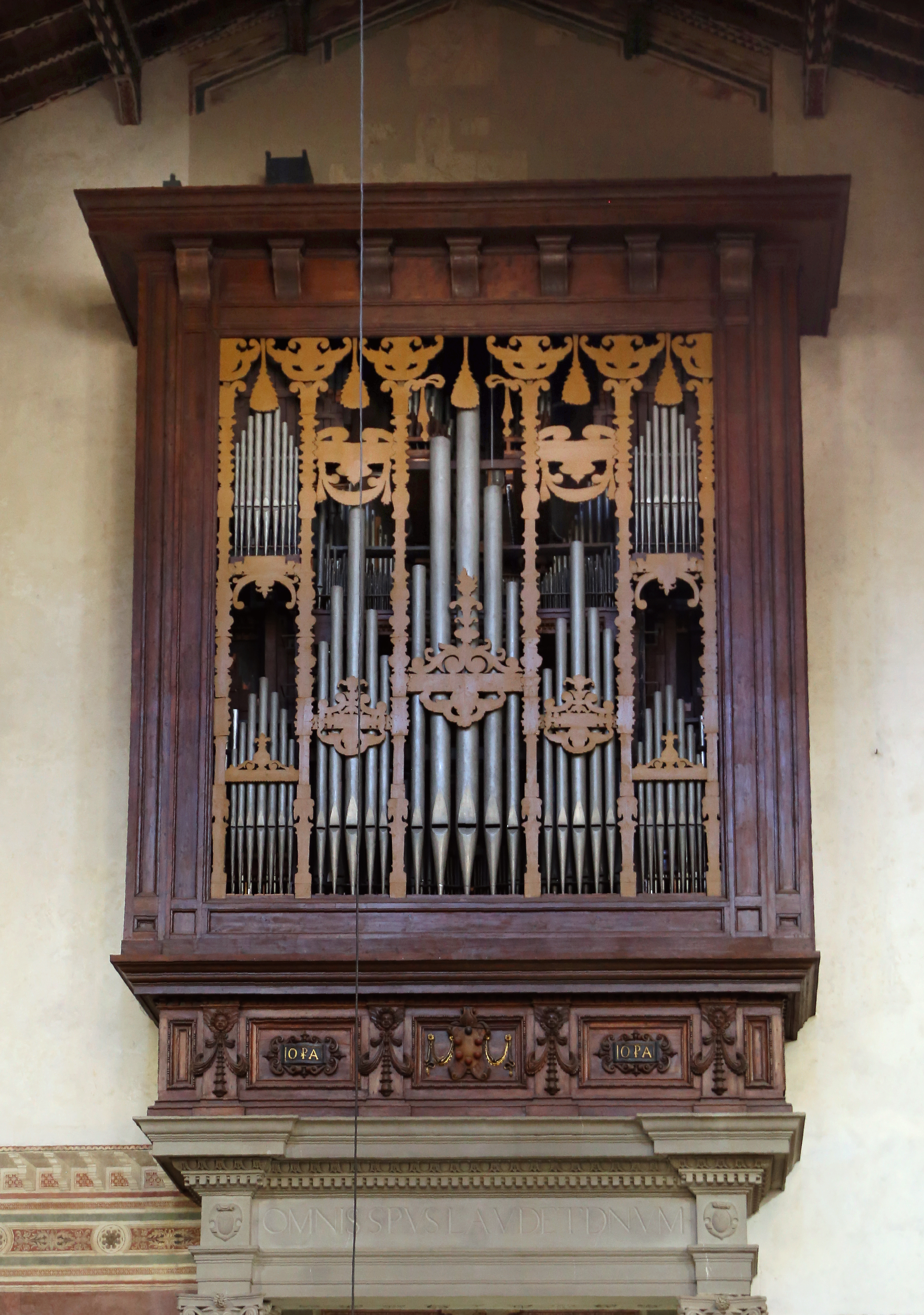 Interior of the Basilica of Santa Croce (Florence)